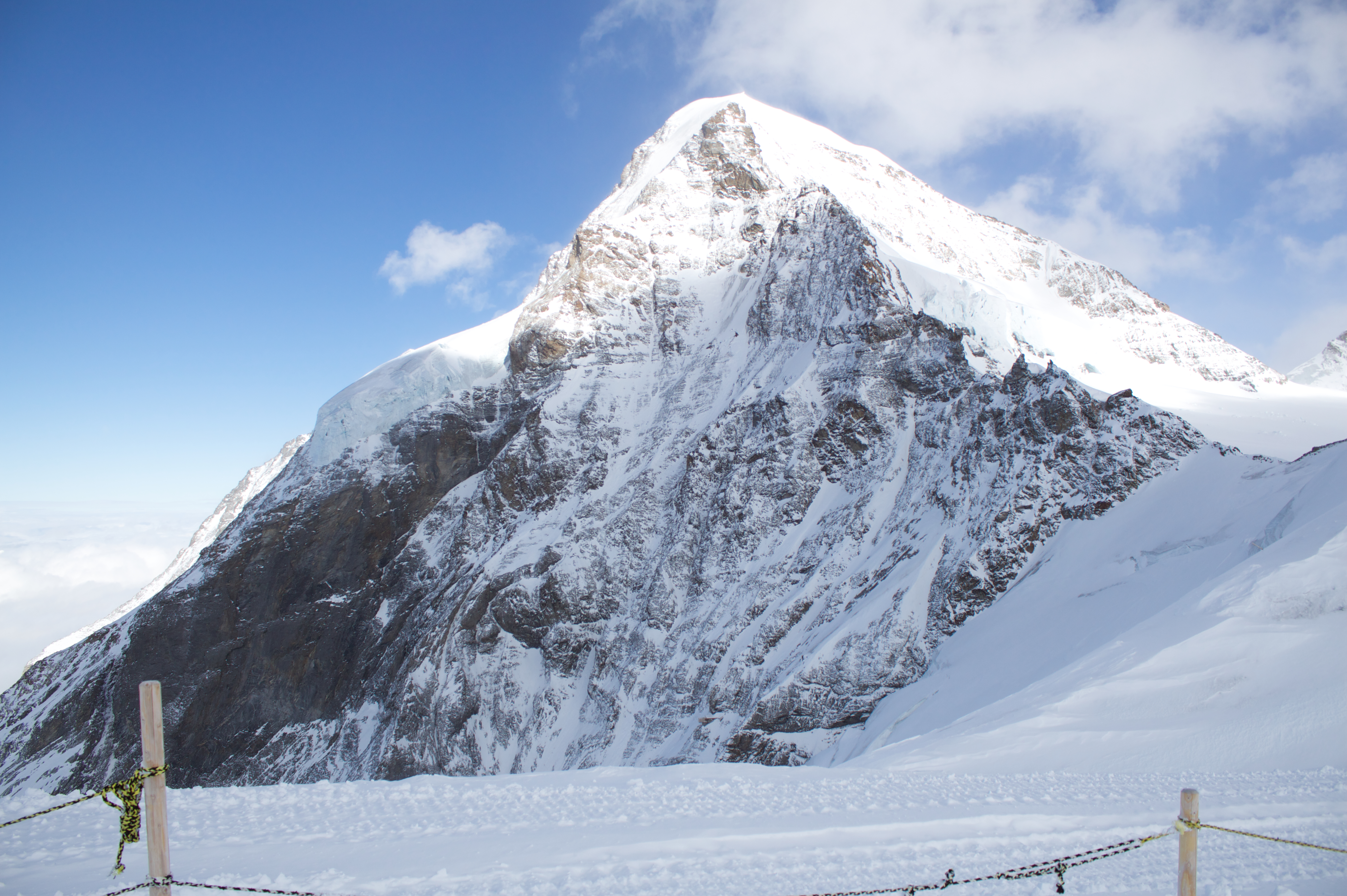 A view of Jungfrau in the Swiss Alps.